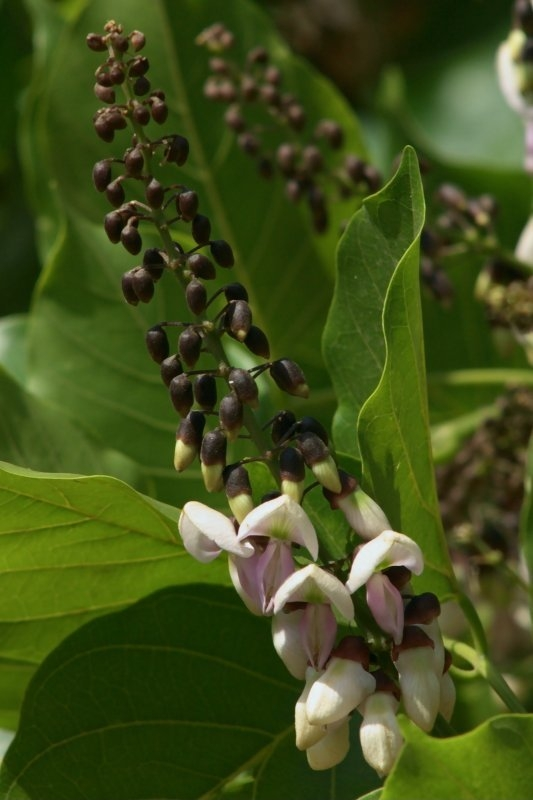 Pongam or Honge (Pongamia pinnata) is a native of India and grows in profusion, generally planted as avenue trees by the forest department. It's renowned for its shade and is well known in traditional uses for its medicinal properties. It is also grown as a host plant for lac insects. The tree is also one of the food plants for Common Cerulean (Jamides celeno). The seeds contain pongam oil - a red brown inedible oil - that is now being explored as an alternate fuel source.